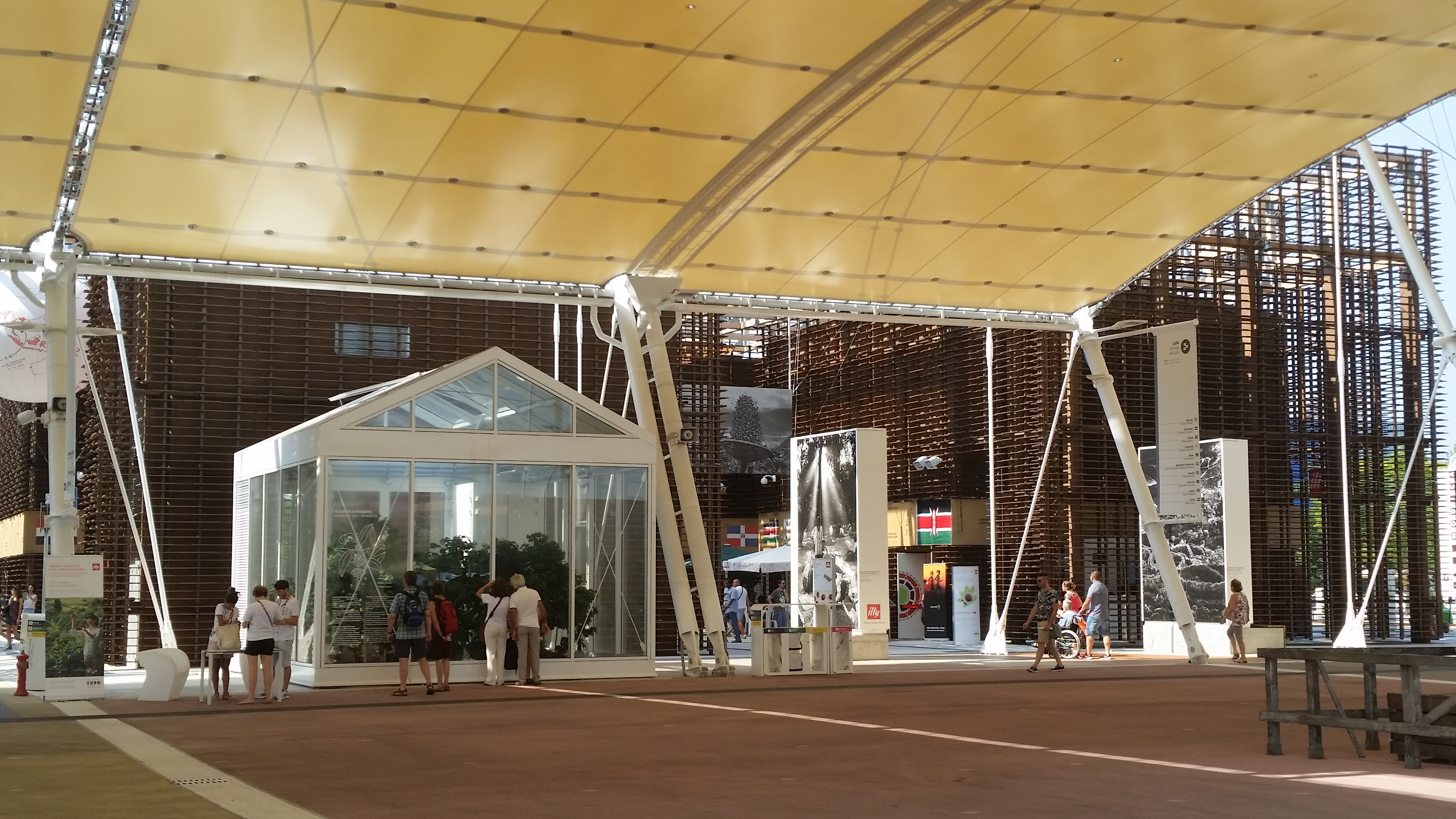 Pavilion of the Expo 2015 located in Milano (Italy)